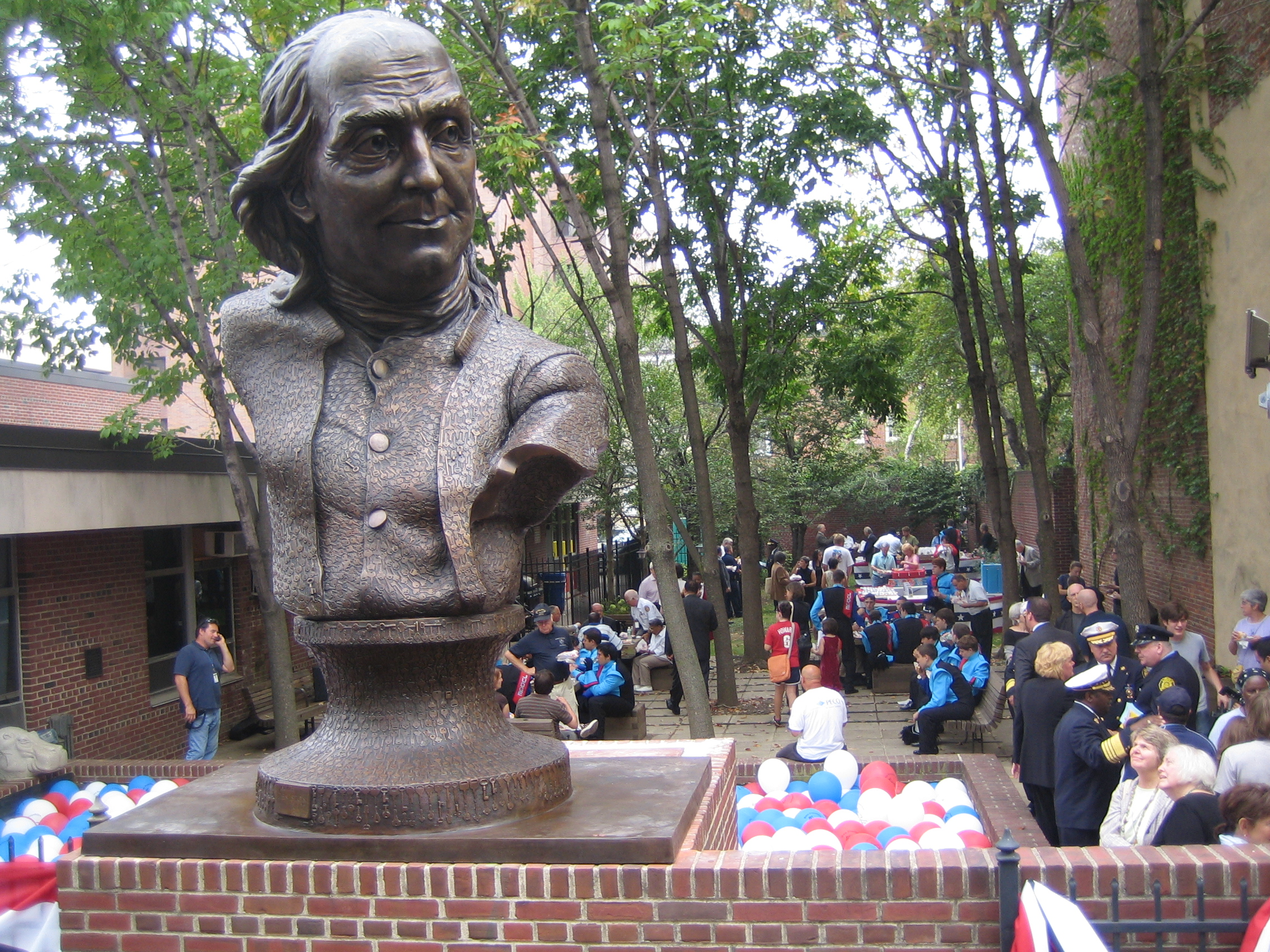 Ben Franklin presides over a luncheon, complete with Geno's cheesesteaks, after the Oct. 5 dedication of "Keys To Community," a nine-foot bronze sculpture of Ben Franklin by West Philadelphia sculptor James Peniston in Girard Fountain Park at 4th and Arch Streets in Philadelphia's Old City neighborhood. The work, which was commissioned by the city of Philadelphia, Pennsylvania, was partially funded by the Fire Department and by 1.8 million pennies donated by Philly schoolchildren.